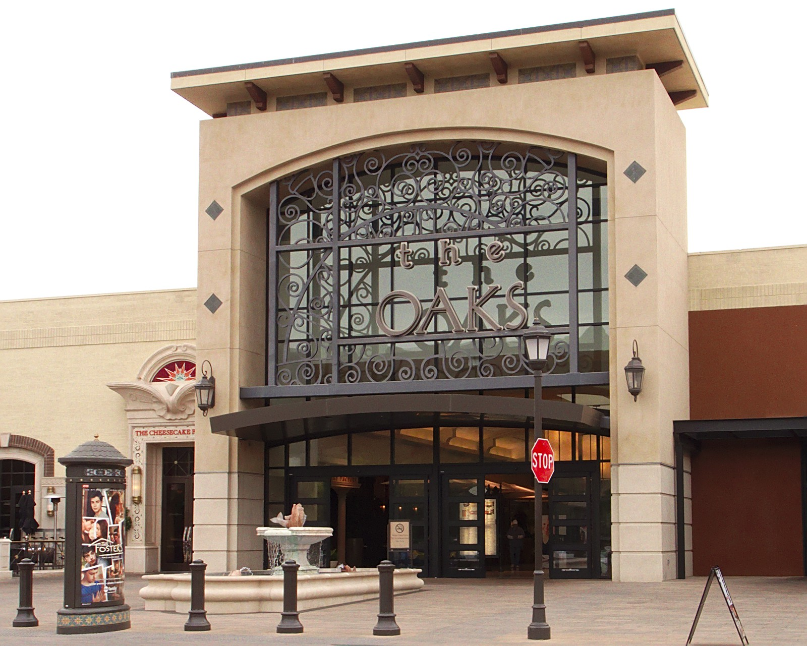 Main entrance of The Oaks shopping center in Thousand Oaks, California.